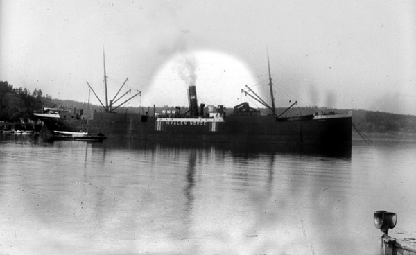 Lars Christensen's whaling factory "Hvalen", ex. S/S Fallodon Hall (1892)